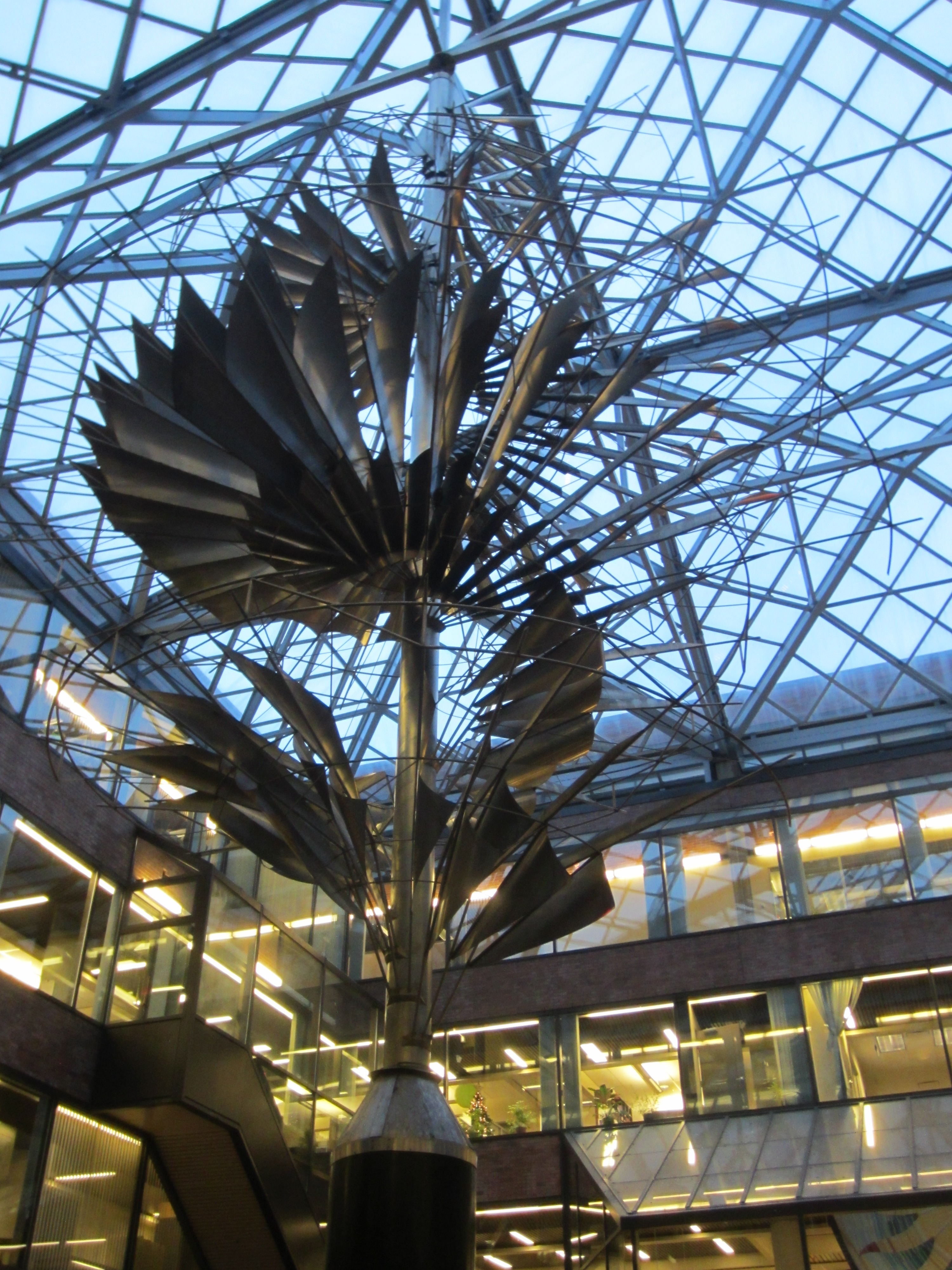 Victoria, British Columbia in December 2012